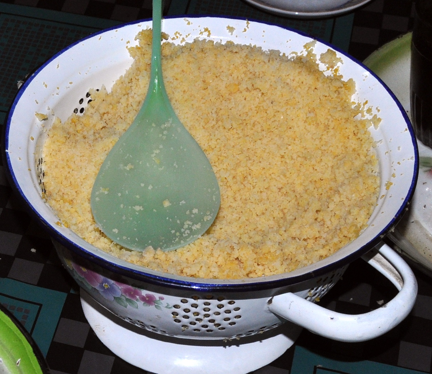 Nasi jagung (=boiled 'rice' from maize). Blitar, East Java , Indonesia.